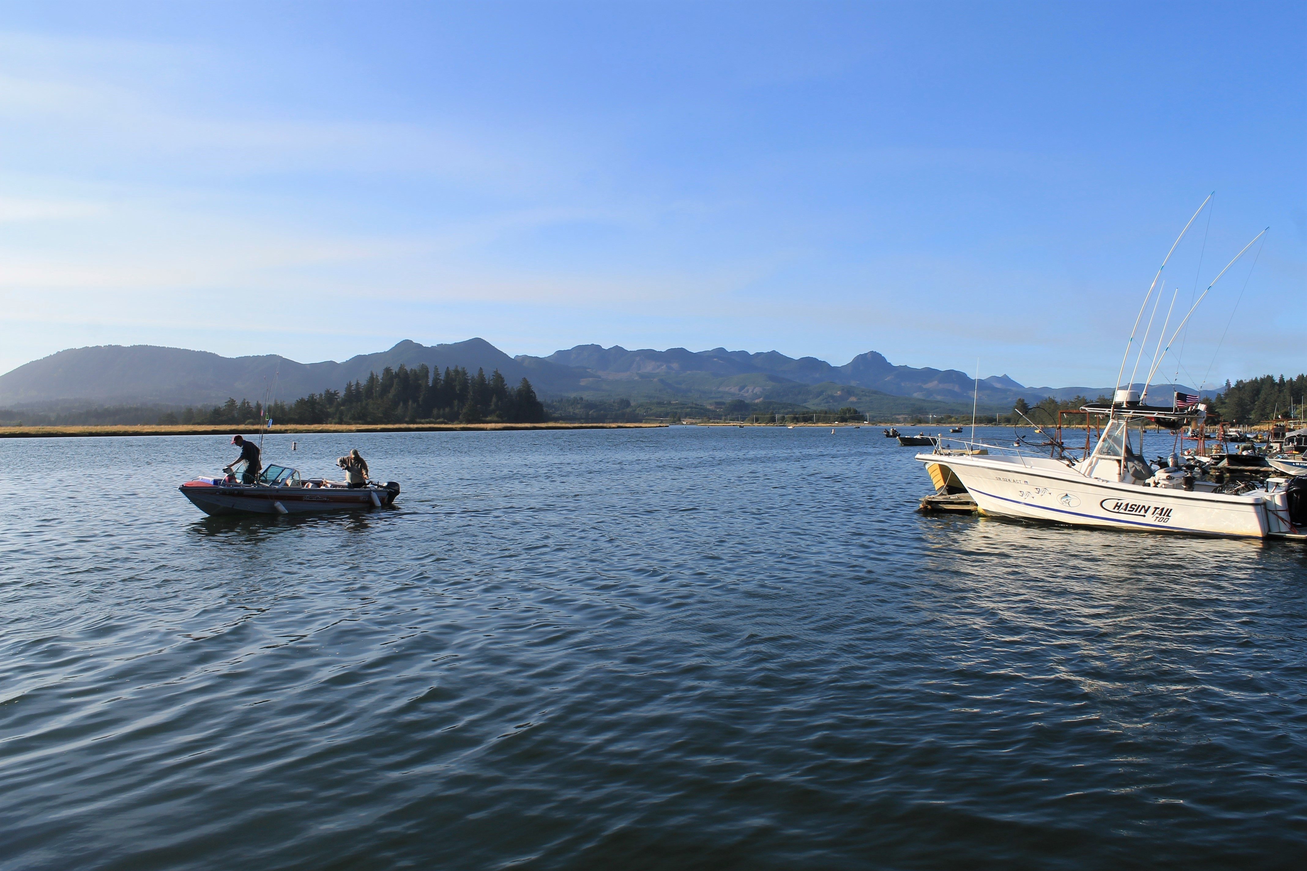 This is a photo of the Nehalem River taken in the city of Wheeler.